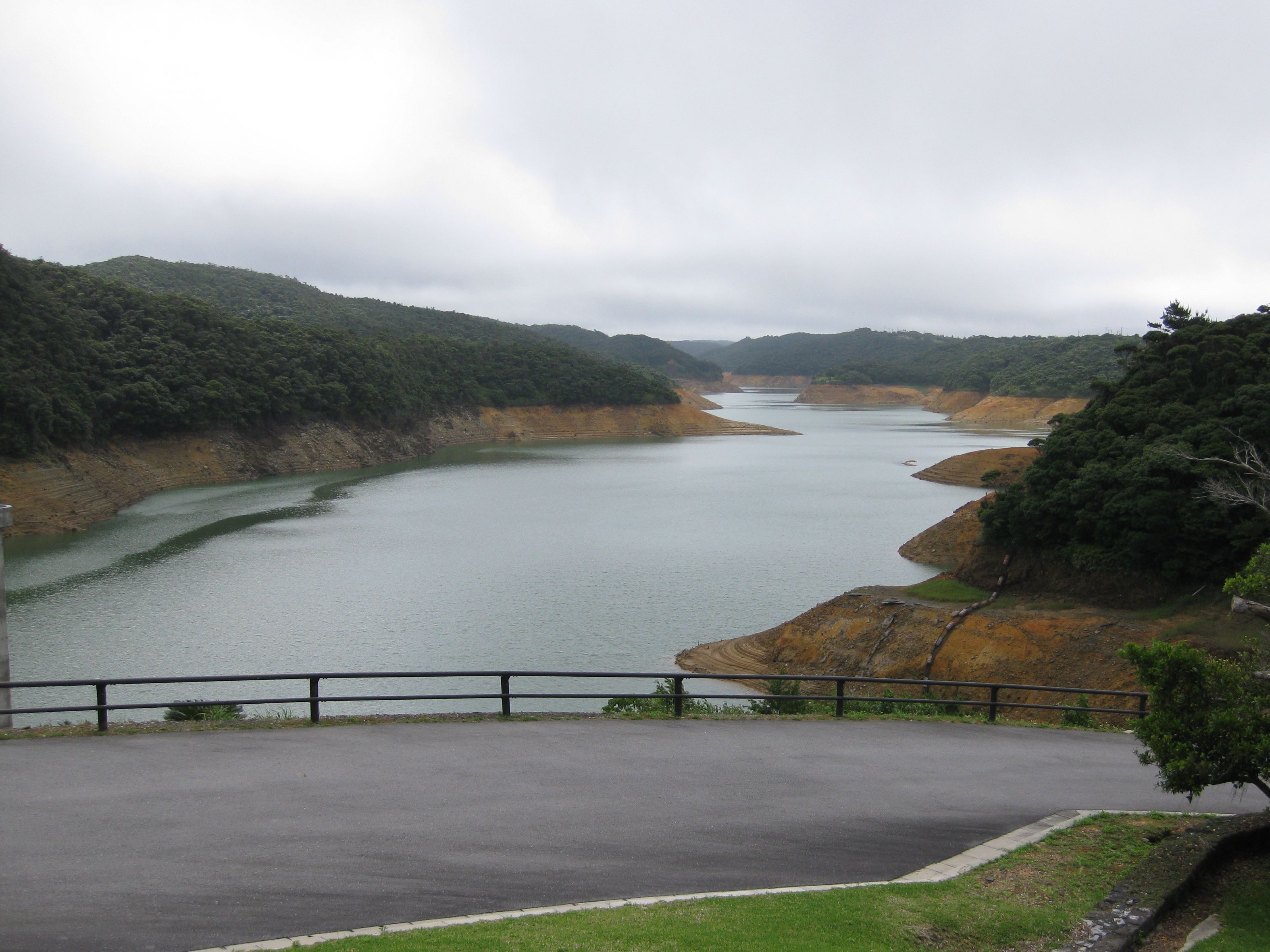 Lake Fukugami in Okinawa, Japan